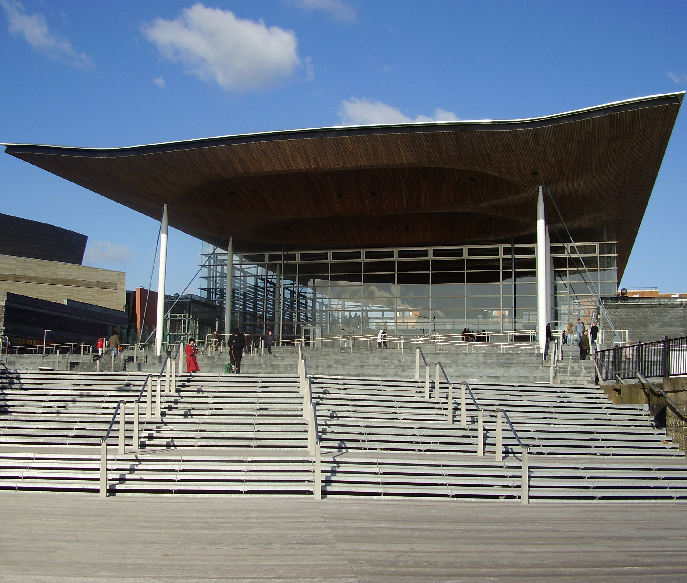 The steps to the Senedd, Cardiff Bay, Cardiff, Wales